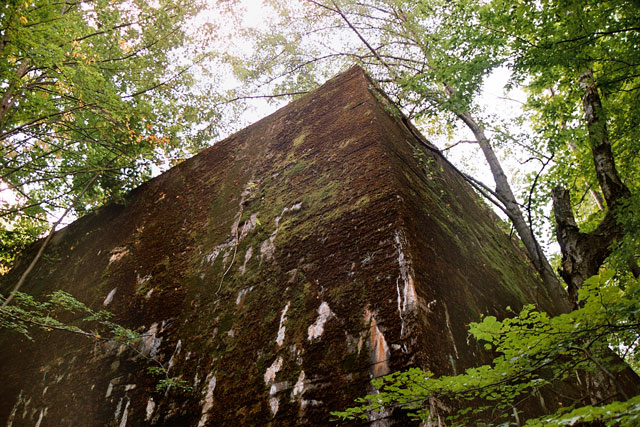 Wolfsschanze, one of Adolf Hitler's headquarters during WWII.